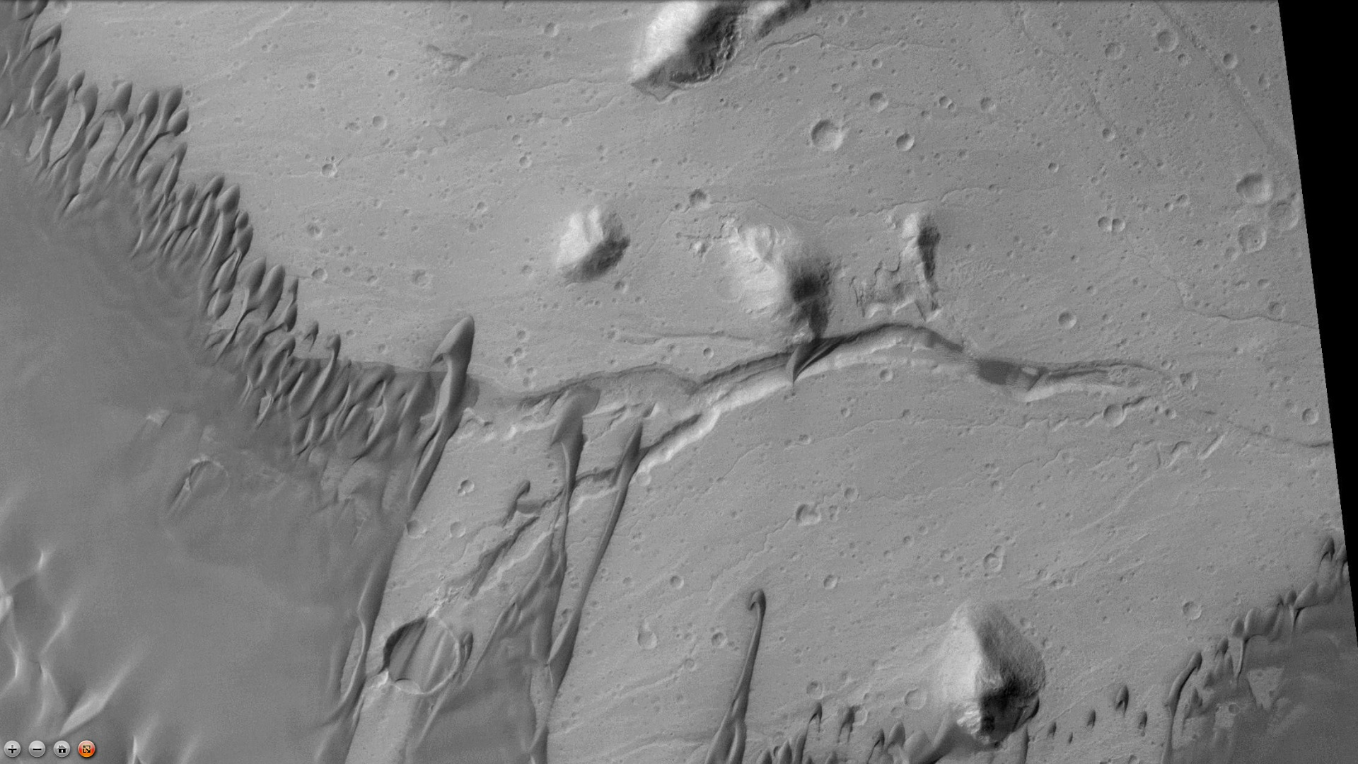 Dunes on floor of Orson Welles Crater, as seen by CTX